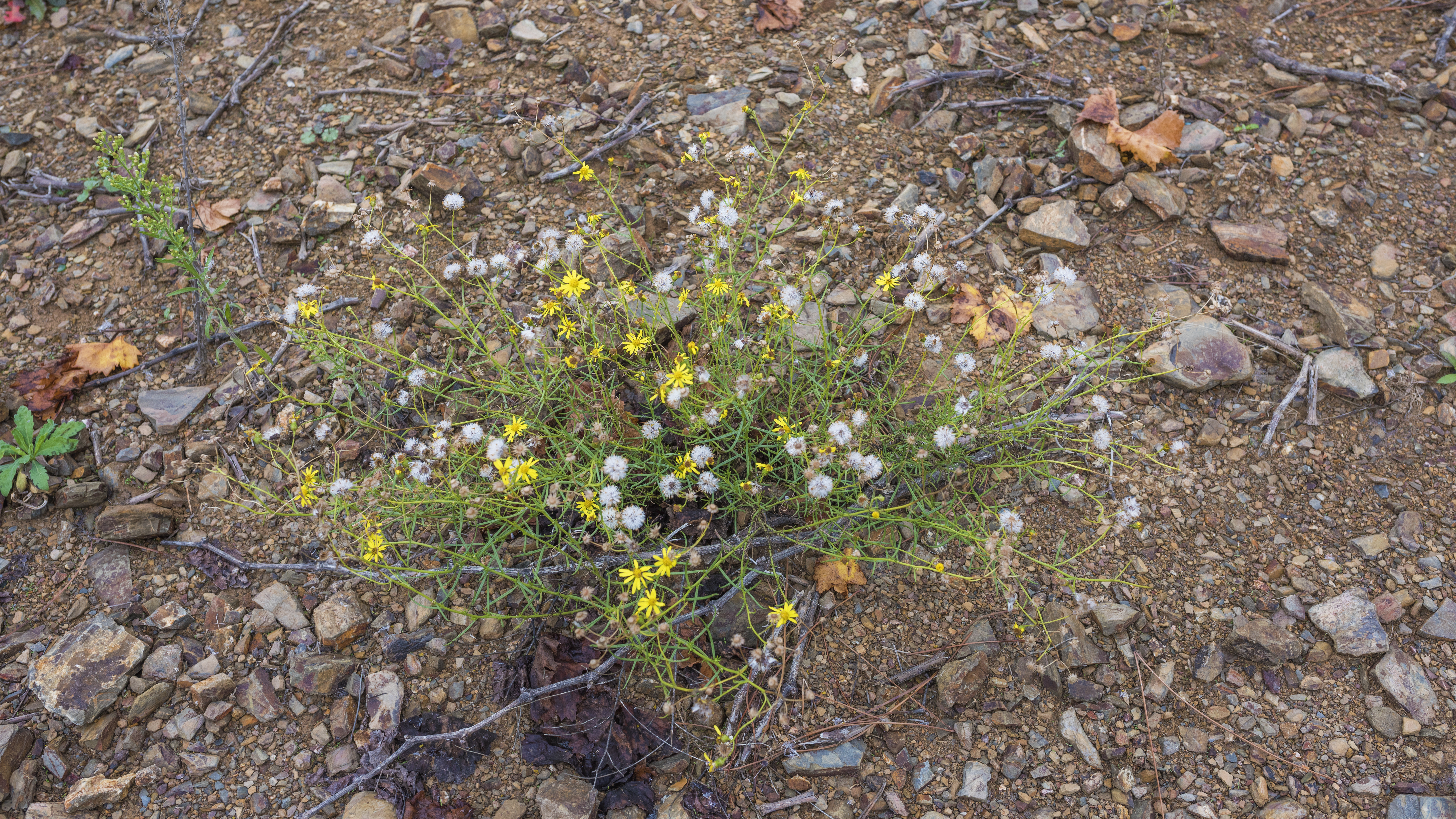 Senecio inaequidens (South African ragwort). Cessenon-sur-Orb, Hérault, France.